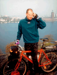 Göran Kropp at Skinnarviksberget, Stockholm, Sweden, October 1995, at the press conference prior to his leaving on a six month bike trip to Mount Everest. The photo was taken using a Pentax LX camera, Fujichrome Professional color slide film and a 100 mm lens. This image is scanned from the original slide using an Agfa Snapscan flatbed scanner, hence the low resolution. The reason I was able to take this photo is that I was present at the press conference Göran held at Skinnarviksberget on the day of his departure. As a representative from the Swedish Climbing Association, as well as a personal friend of Göran's, I gave a short talk at the press conference, putting Göran's project into a historical perspective